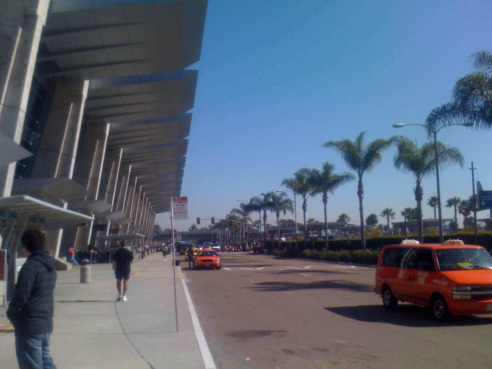 Outside Terminal 2 at San Diego International Airport